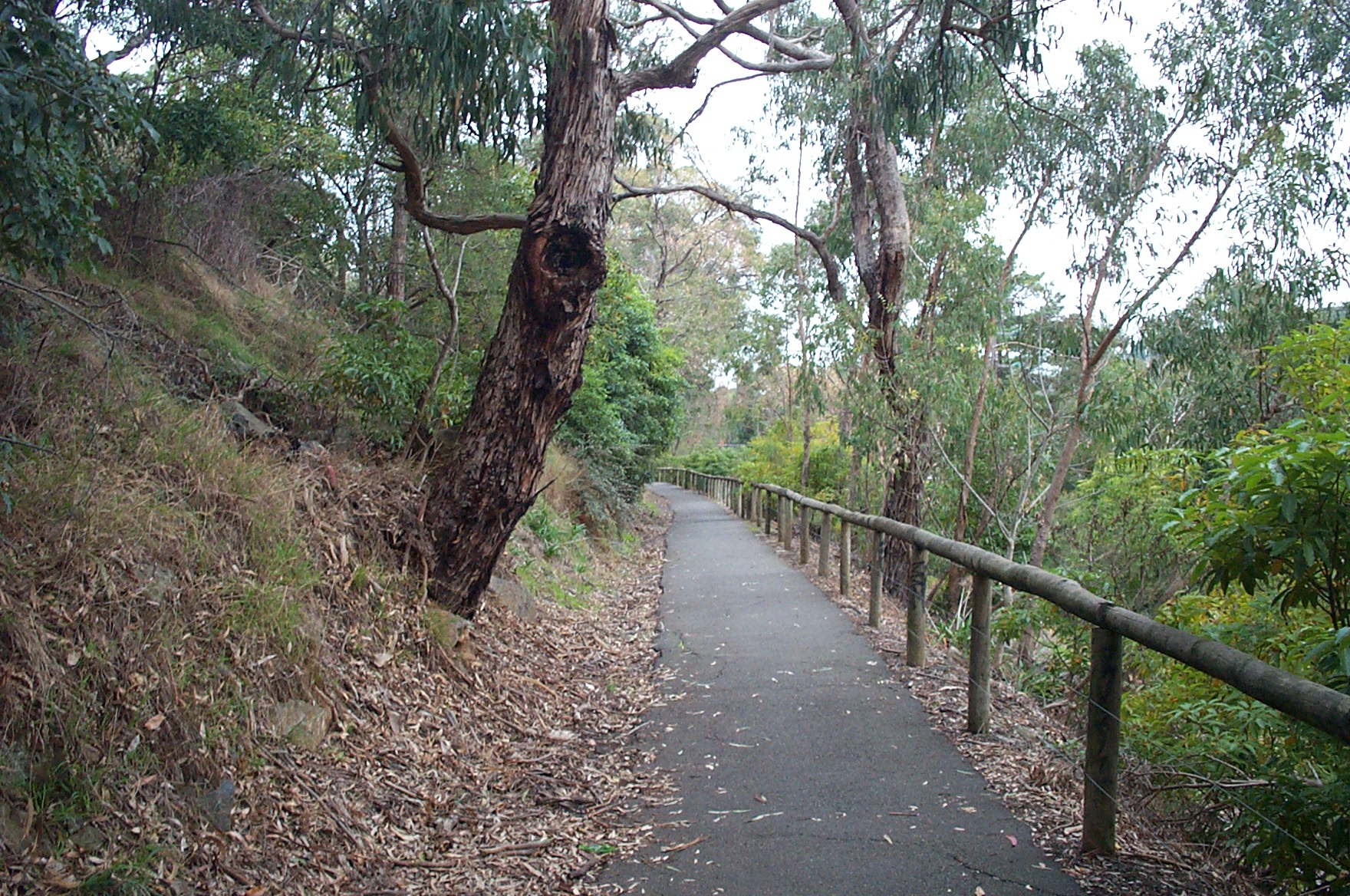 View of Belgrave Rail Trail in Upwey, Victoria, Australia.